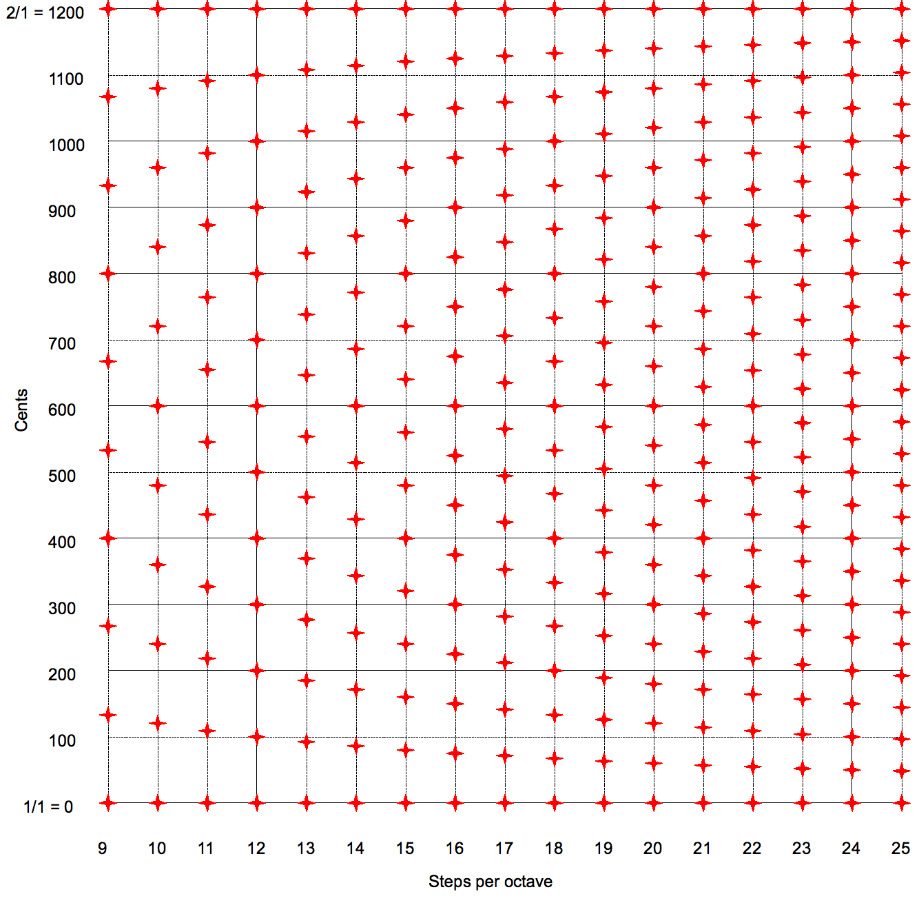 Comparison of equal temperaments from 9 through 25. After Sethares (2005), p.58.